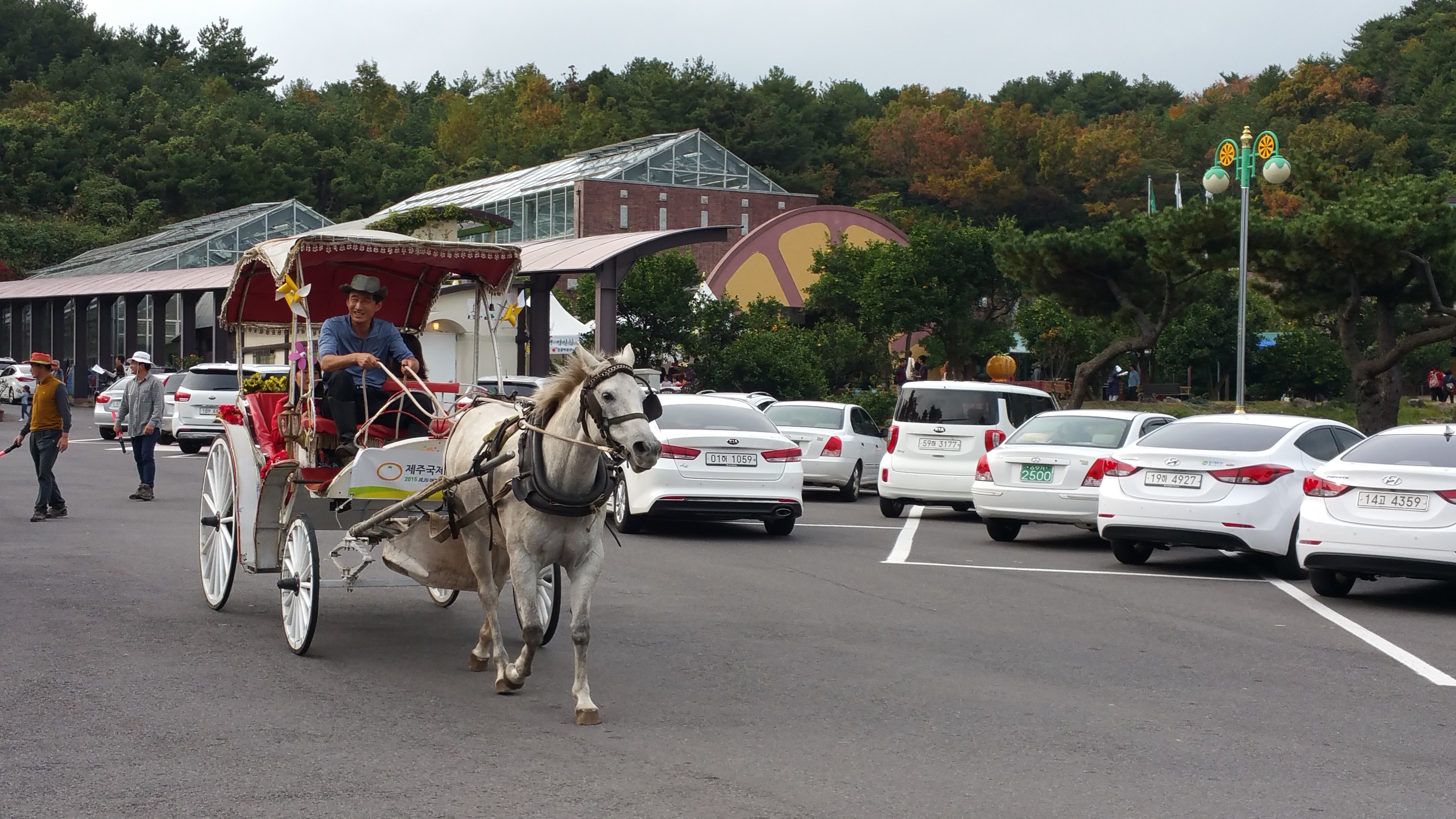 Seogwipo Citrus Museum, Jeju.